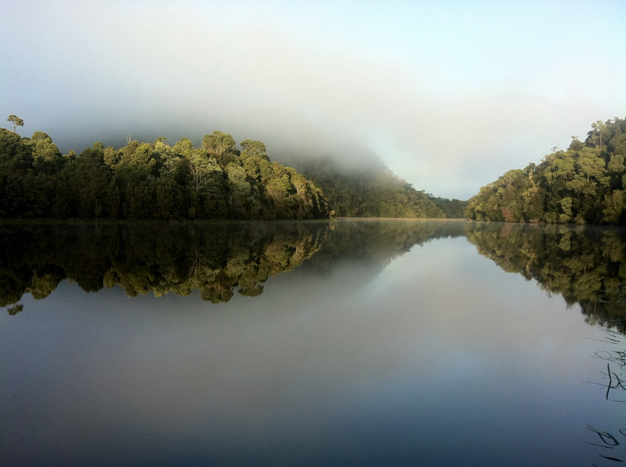 Early morning reflections on the Pieman River of the Tarkine Wilderness.